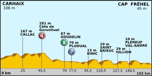 Profil of the 5th stage of the Tour de France 2011